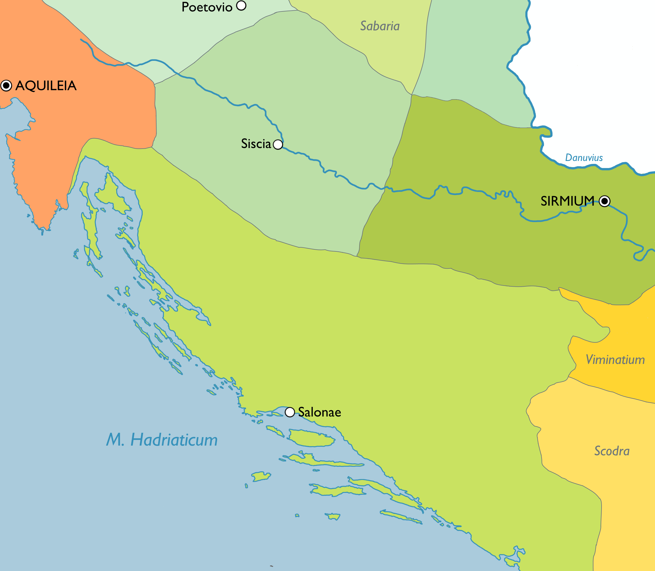 Provinces of the Roman Empire and Catholic Dioceses at the end of the 4th century on the Croatian lands